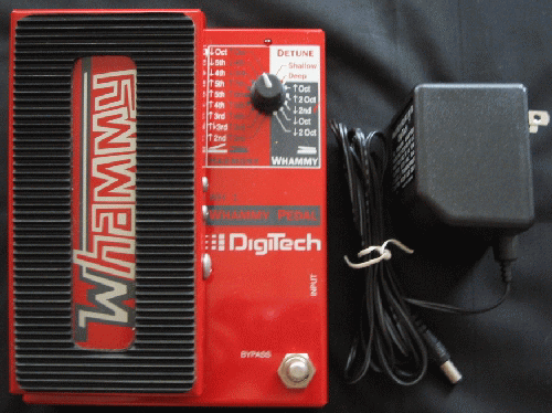 Author gave permission for use of the image